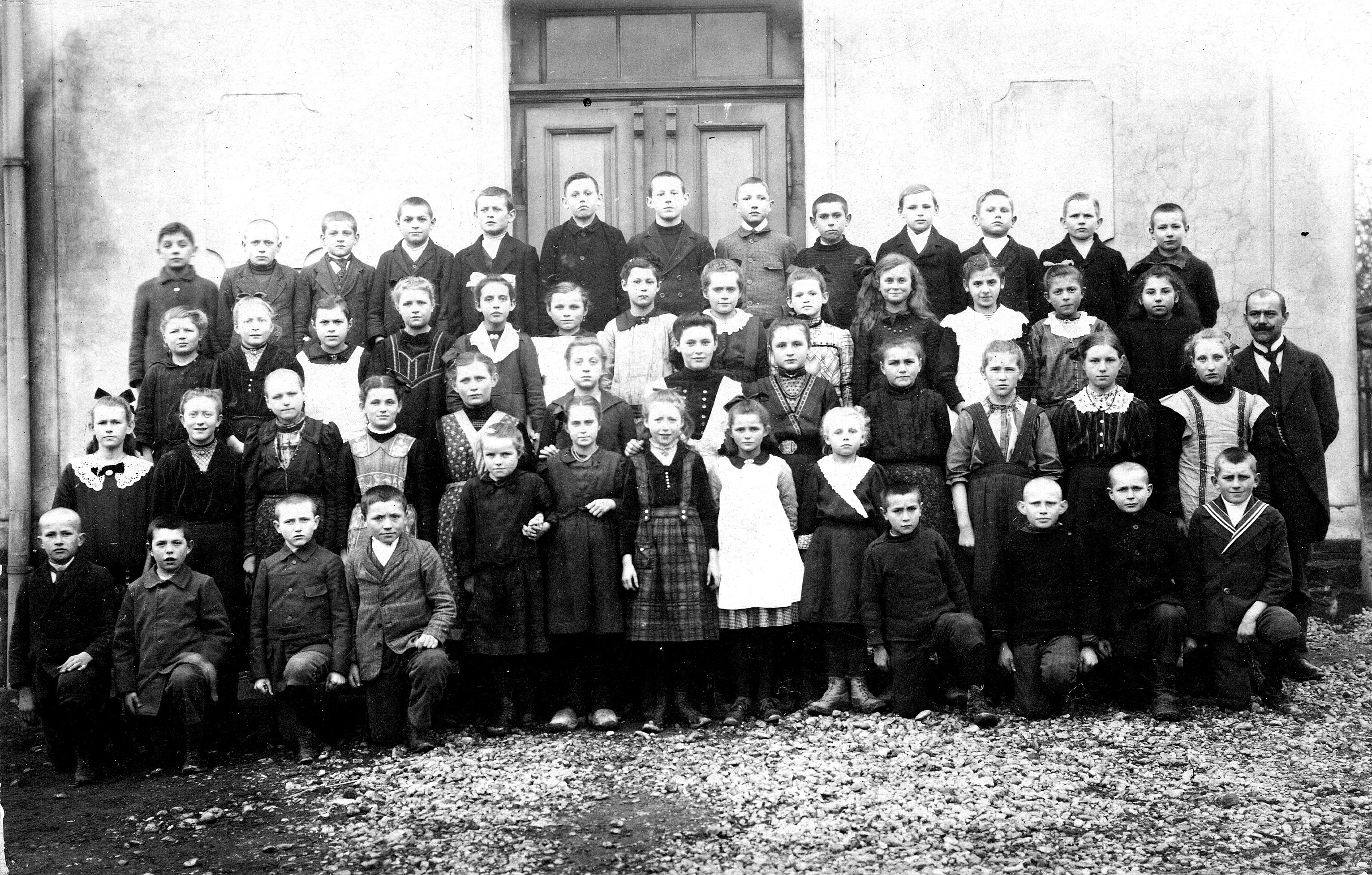 Geburtenjahrgänge 1904 und 1905, Leipziger Schulklasse um 1911. A Saxon school with the schoolmaster in the year around 1911.